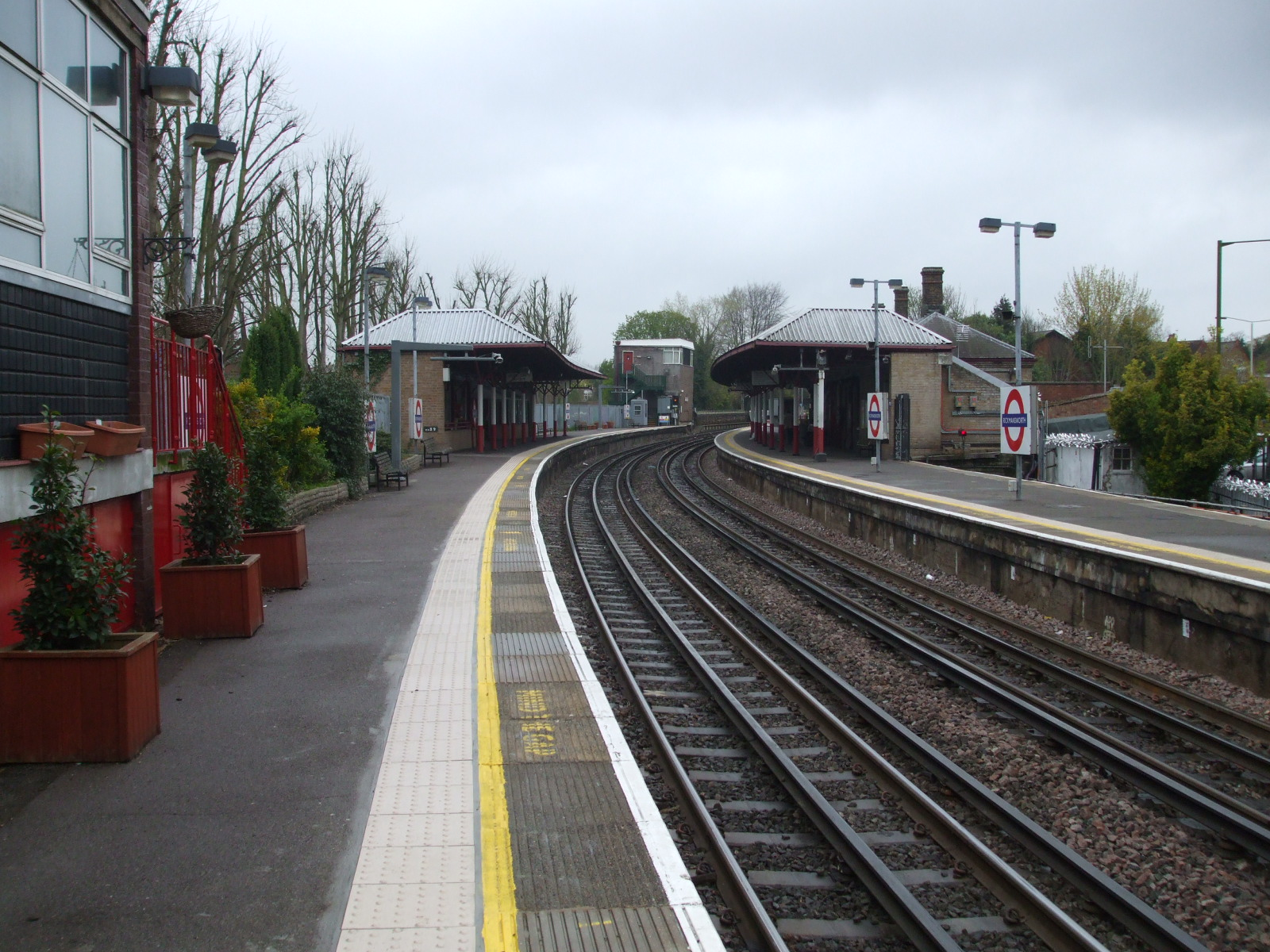 Rickmansworth station platforms looking north. Bay platform formerly used by steam locomtives is visible on the right.